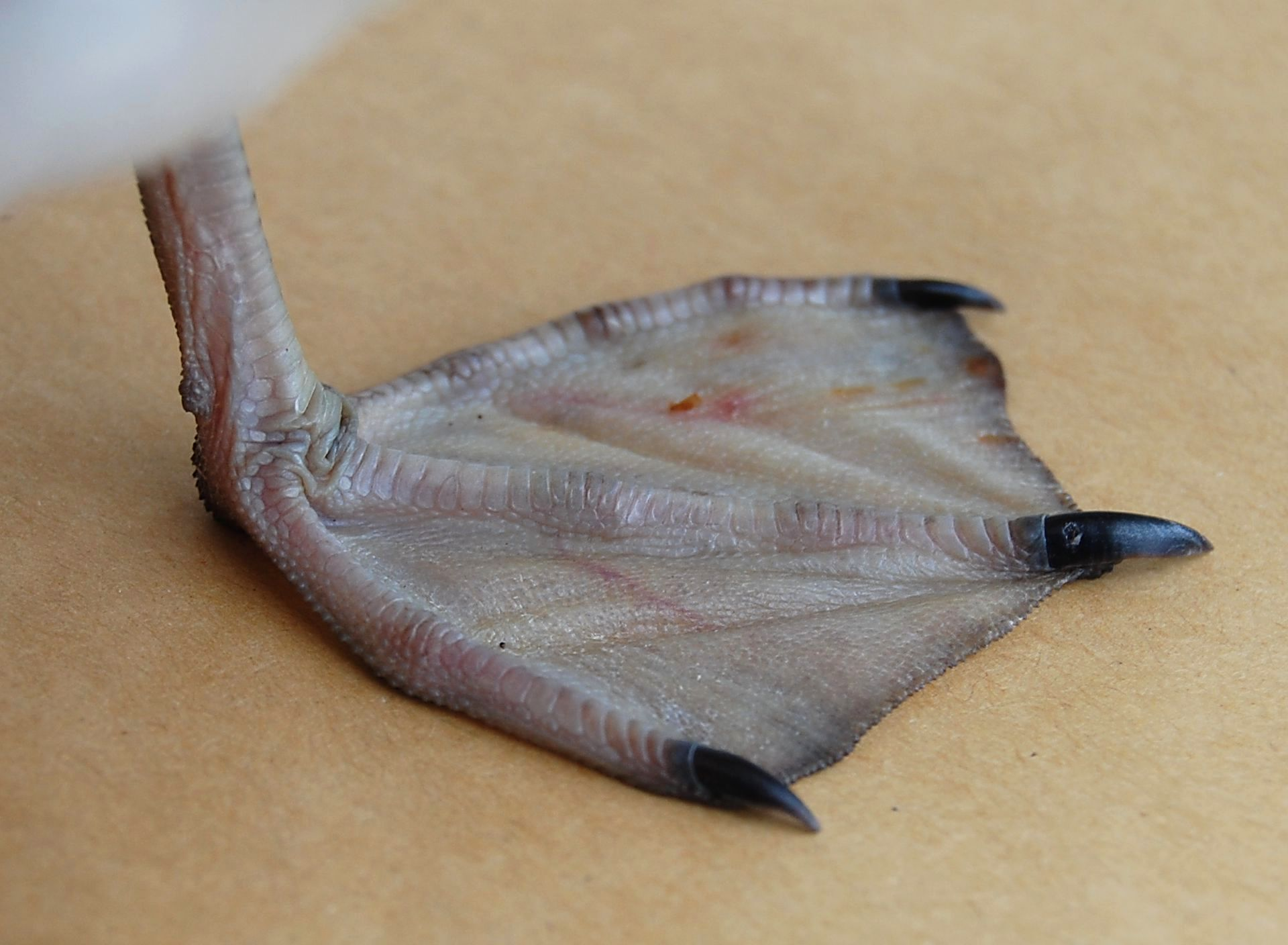 Rissa tridactyla, foot of a 1. winter bird